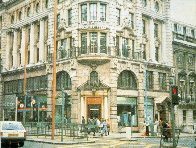 Kent & Curwen Flagship store in St. James’s Street, London